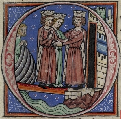 Joan and Richard I meeting Philip Augustus II of France